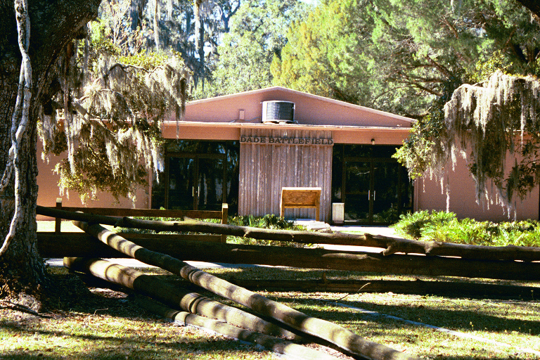 Taken by me on February 1, 2006 at Dade_Battlefield_Historic_State_Park, using a rebel 2000 camera (film) and a 28-90 lens, set on automatic Mikereichold 18:15, 2 February 2006 (UTC). Film developed and image digitalized by by Ritz camera. Picture of visitor center from behind of redoubt. According to the plaques at the visitor center, the redoubt is on the site where Maj. Dade's soldiers made their last stand.